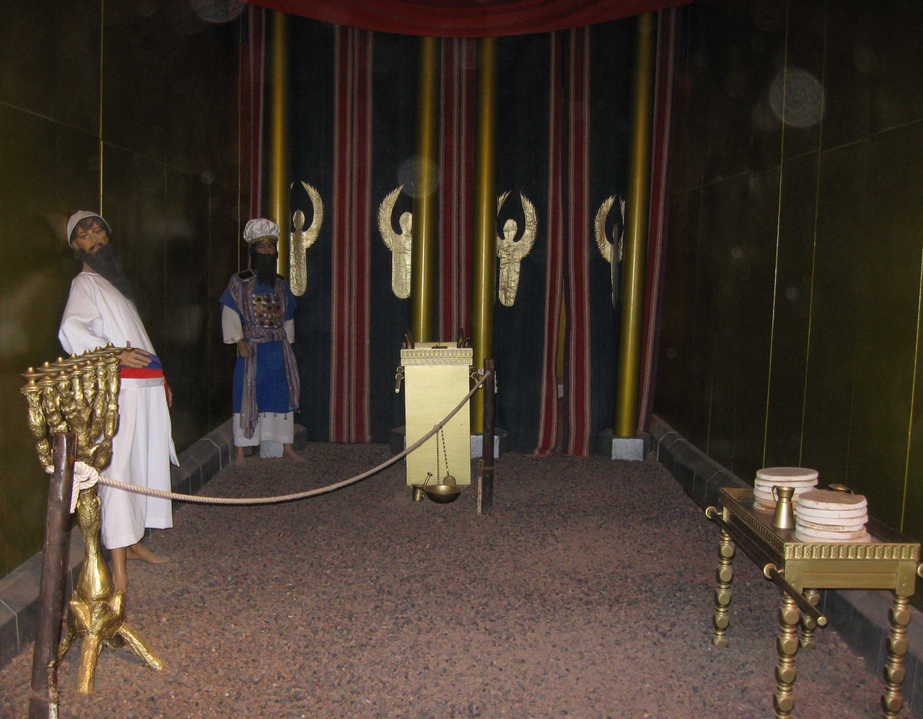 A look inside the full size replica of the Israelite Tabernacle (Mishkan) in Timna valley, Israel.